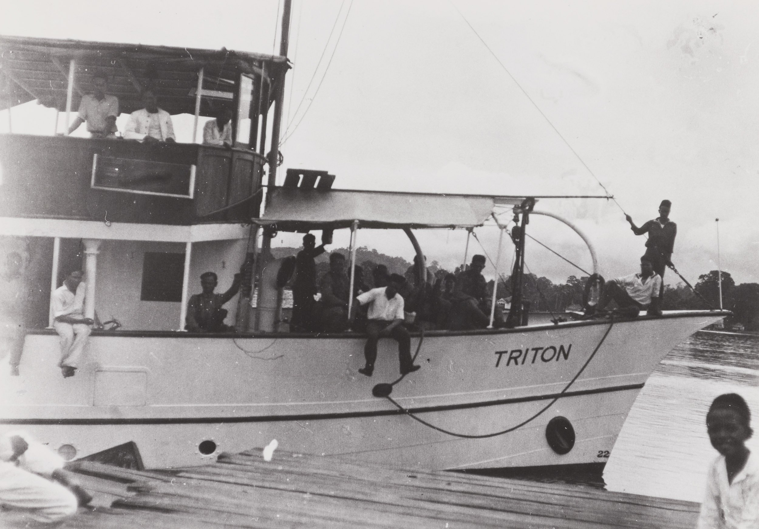 Gouvernements Navy vessel Triton moored in Samarinda, 1935